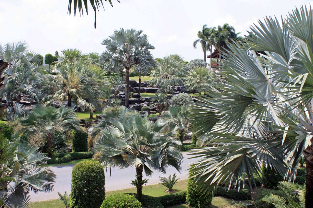 Nong Nooch botanical garden, Silver garden, Thailand